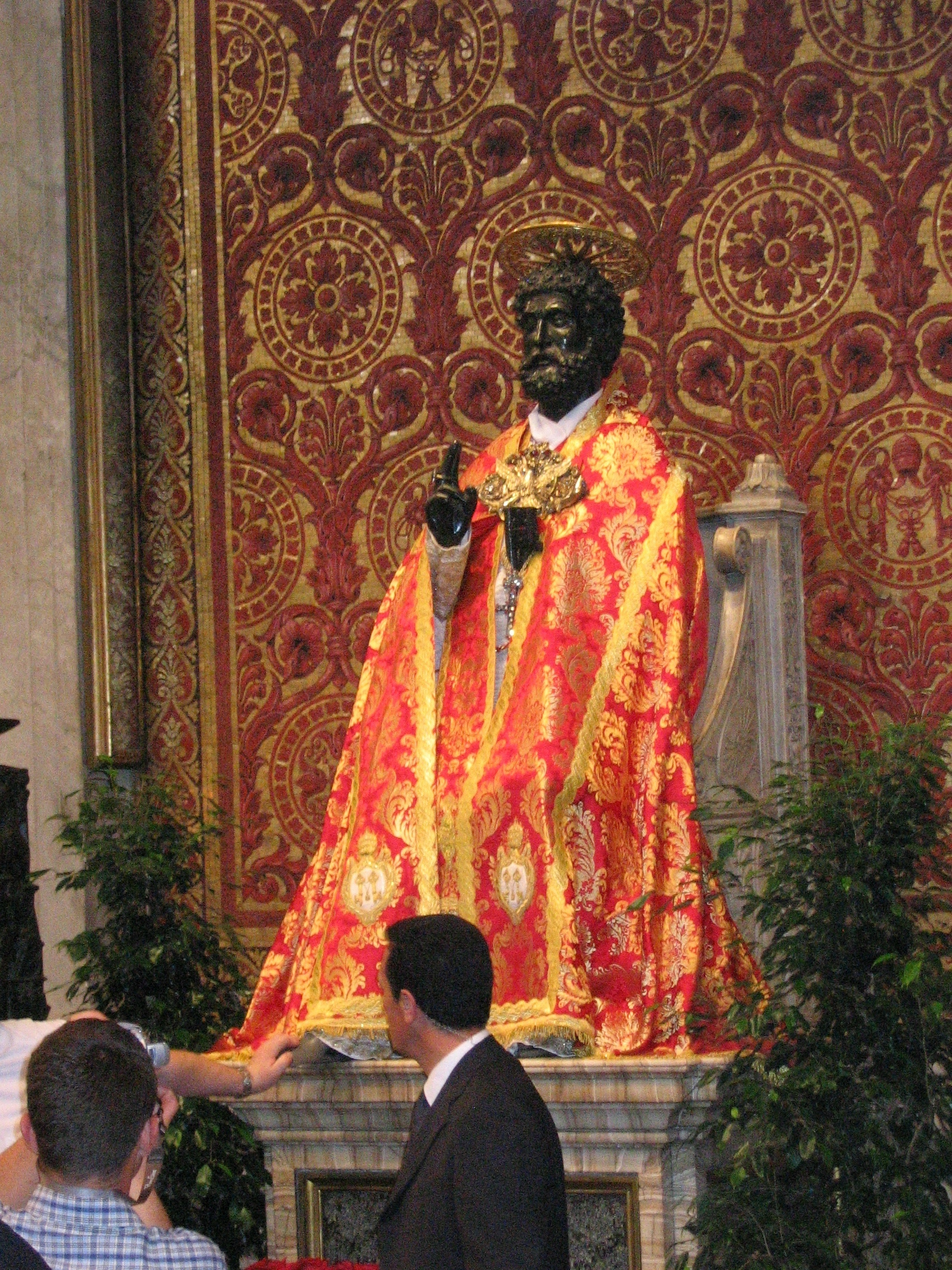 St. Peter statue by Arnolfo di Cambio inside the Vatican Basilica, dressed with a vestment on St. Peter and Paul feast.